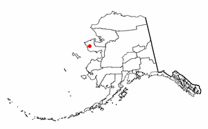 Adapted from Wikipedia's AK borough maps by Seth Ilys.